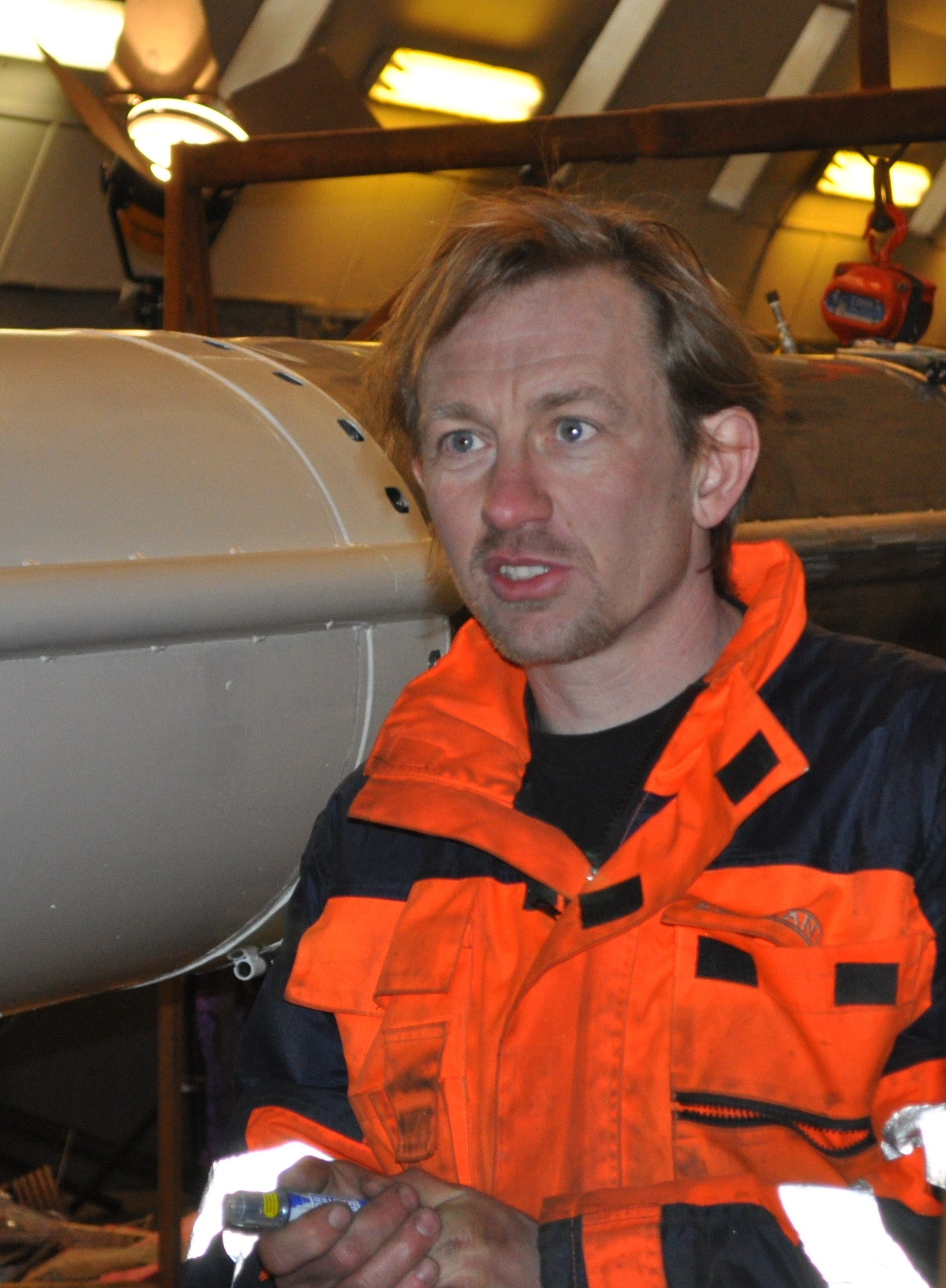 Peter Madsen is a Danish inventor and convicted murderer. He built the submarines Freya (2002), Kraka (2005) and UC3 Nautilus (2008) and was involved in building a rocket to send a person into space.